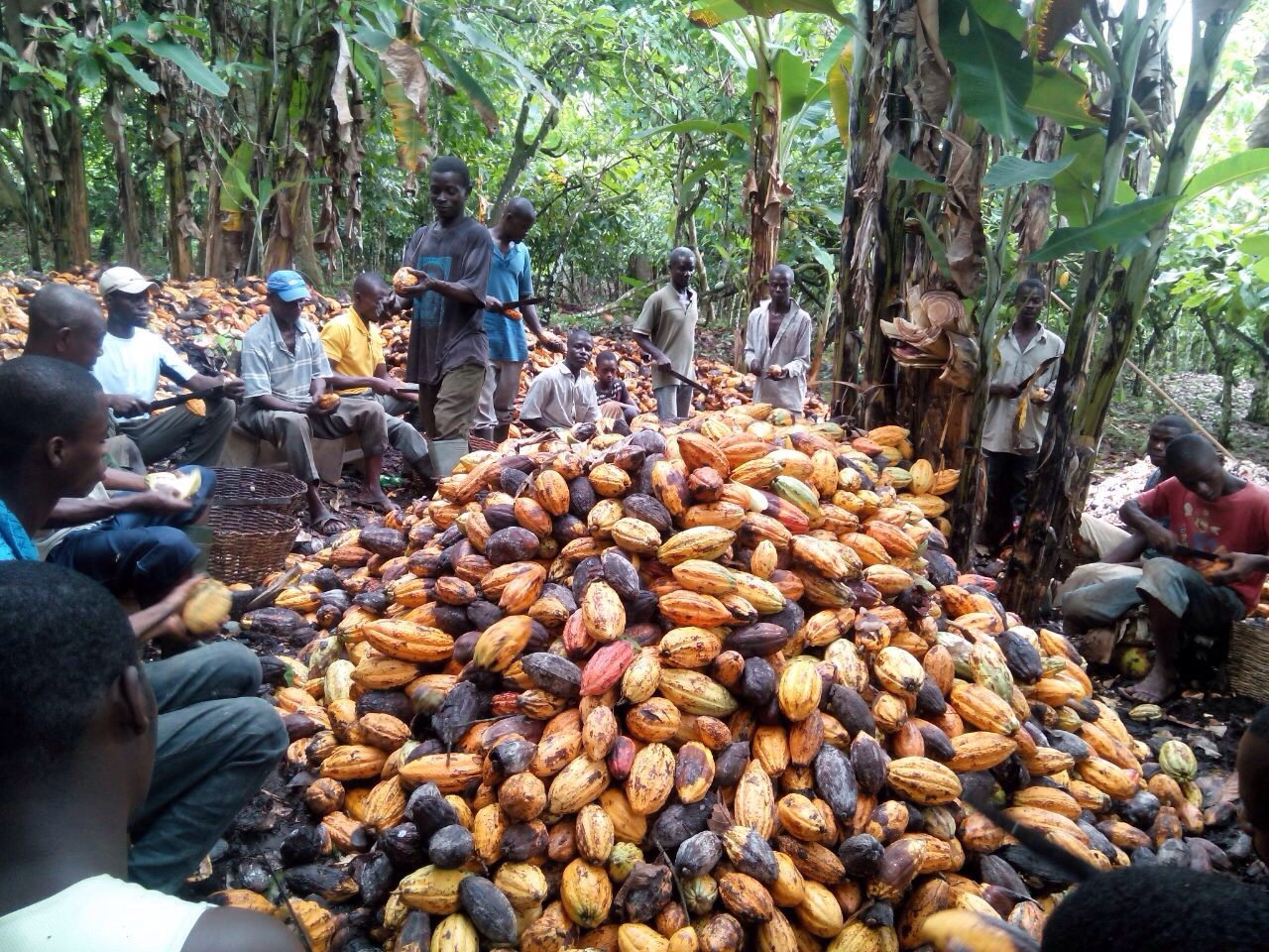 During harvest time cocoa farmers need all their time and support of employees to seperate the cocoa beans from the pots.